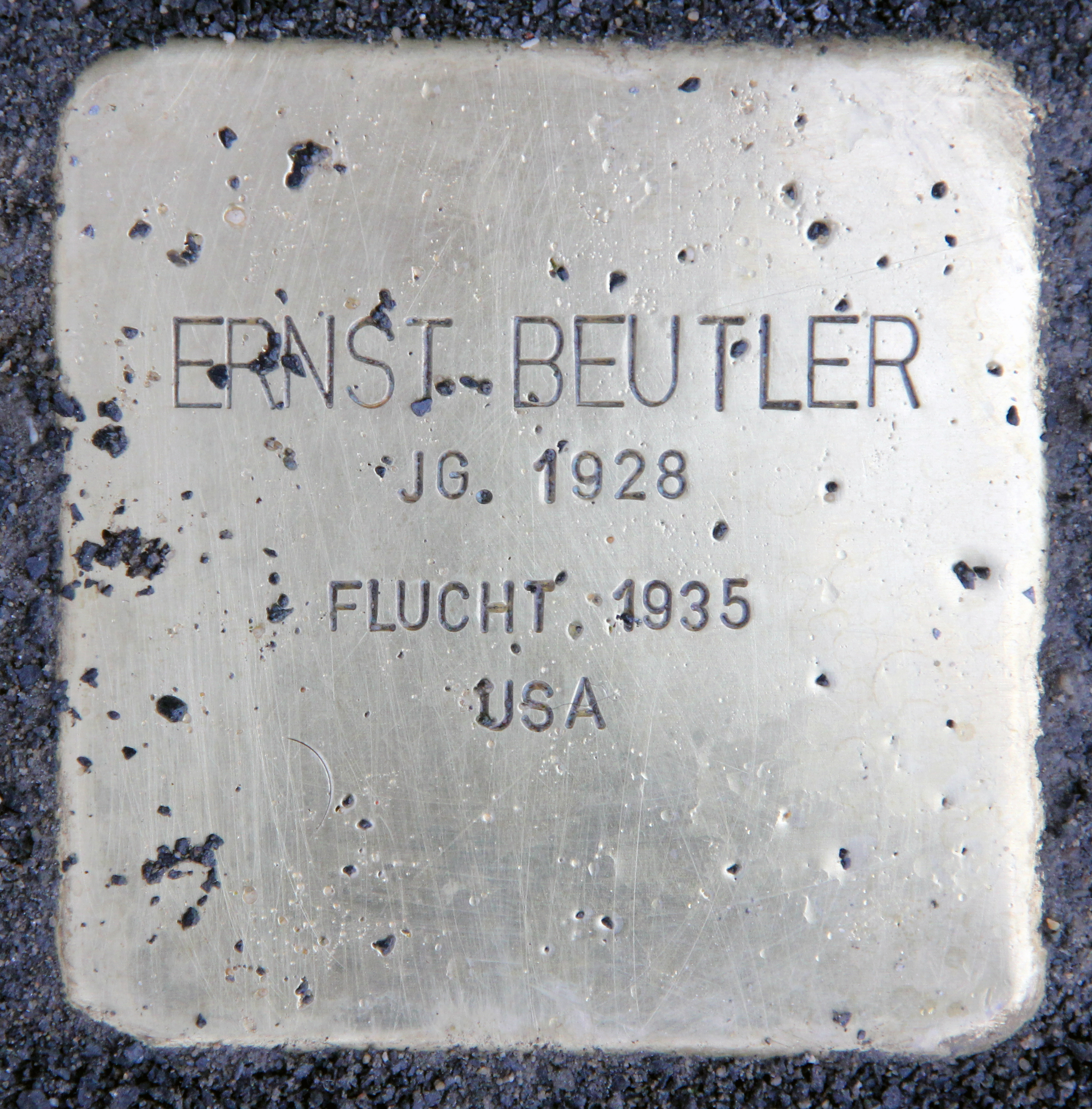 "Stolperstein" (stumbling block), Ernst Beutler, Theodor-Heuss-Platz 2, Berlin-Westend, Germany